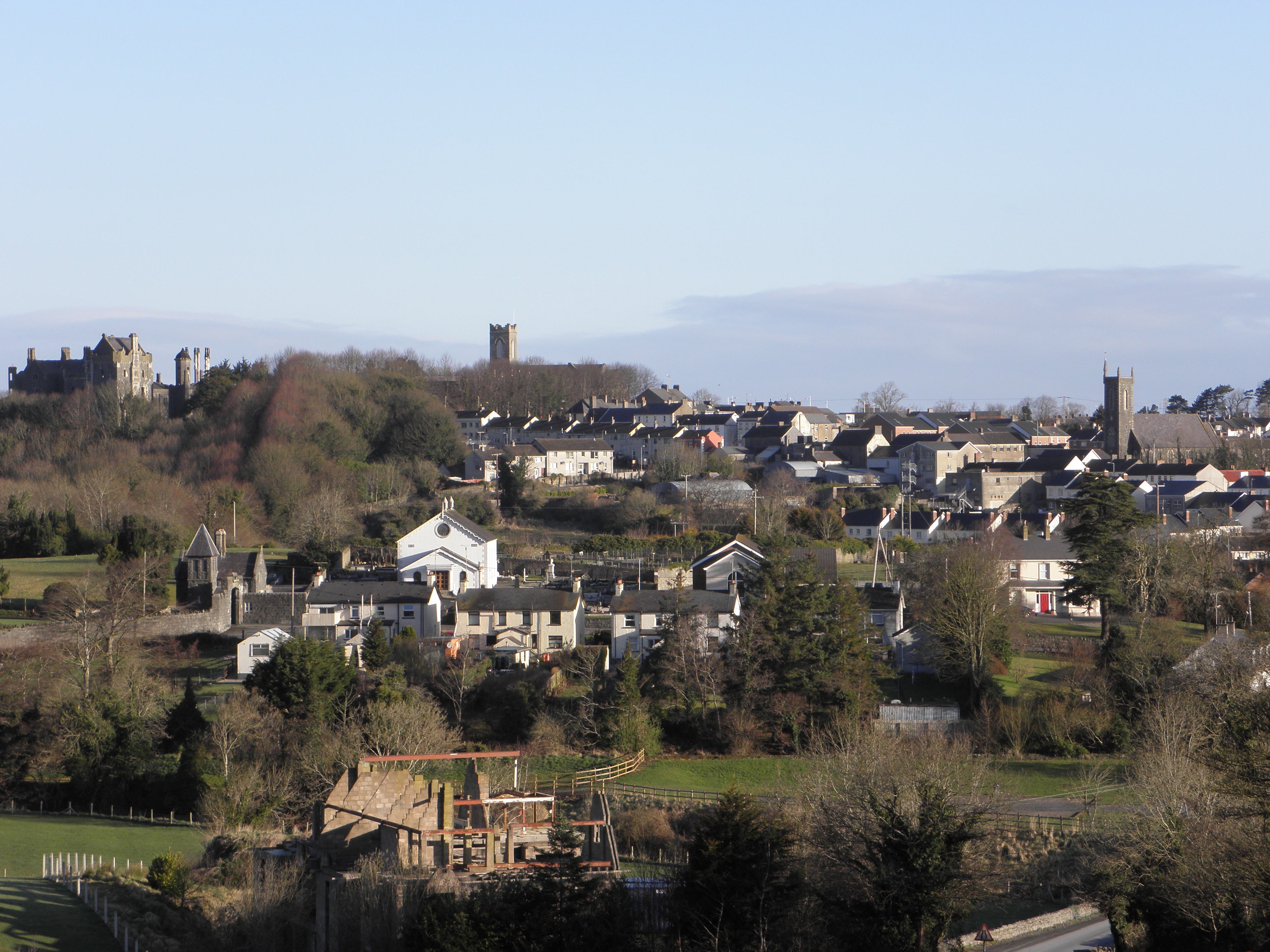 A view over Tandragee in County Armagh, Northern Ireland. The building at top left is Tandragee Castle. The church at middle is Saint Mark's (Church of Ireland) and the church at right is Saint James's (Roman Catholic).